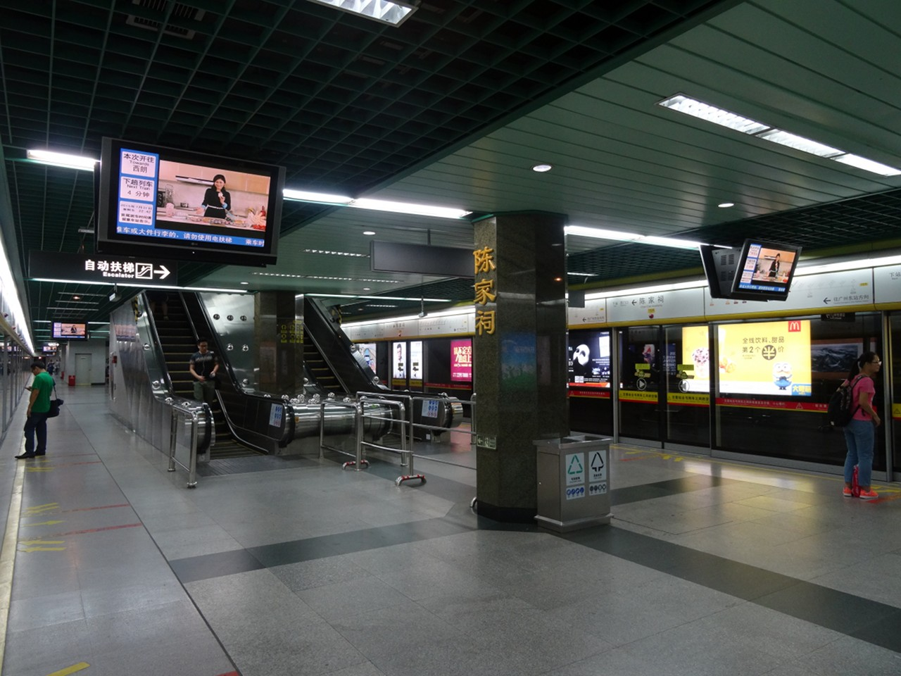 陳家祠站1號線嘅月台